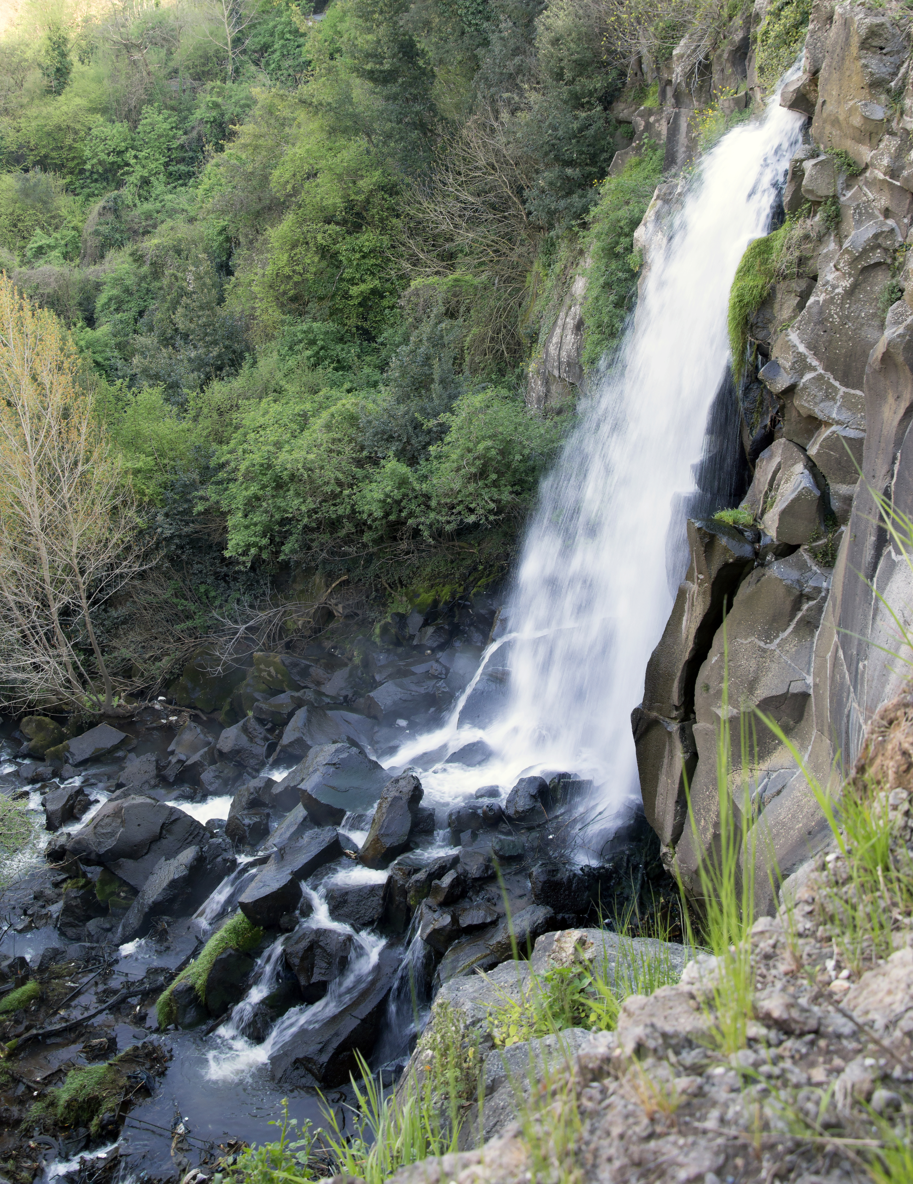 Waterfall of Cavaterra in Nepi